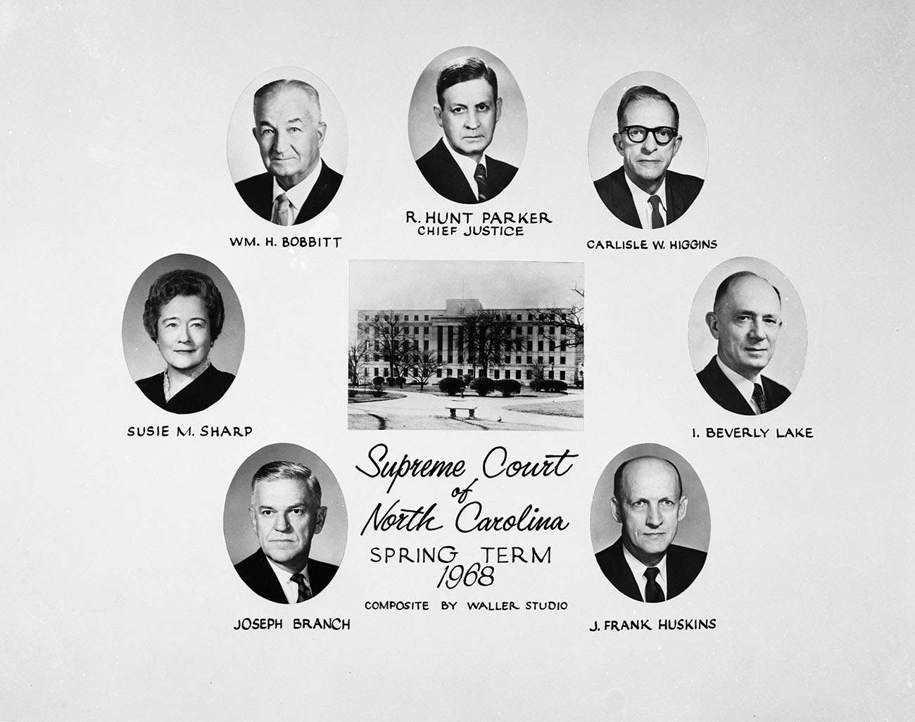 North Carolina Supreme Court, Spring Term, 1968. Composite of portraits by Waller Studio.